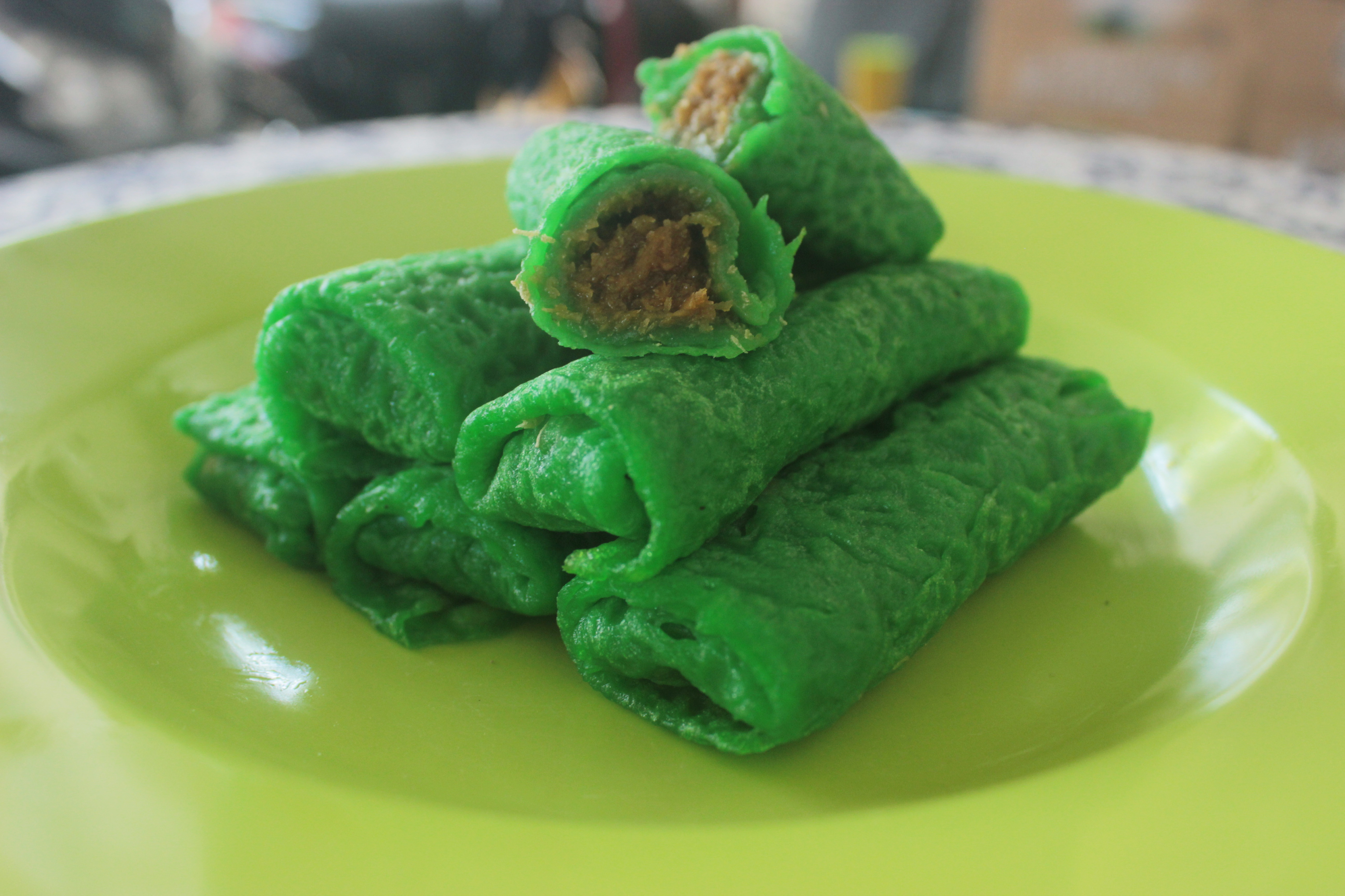 Dadar gulung is one of Indonesian traditional foods originating from Java. Dadar gulung is made from rice flour and the pandanus is used as part of the green color, then rolled and filled with grated sweet coconut (grated coconut mixed with sugar)